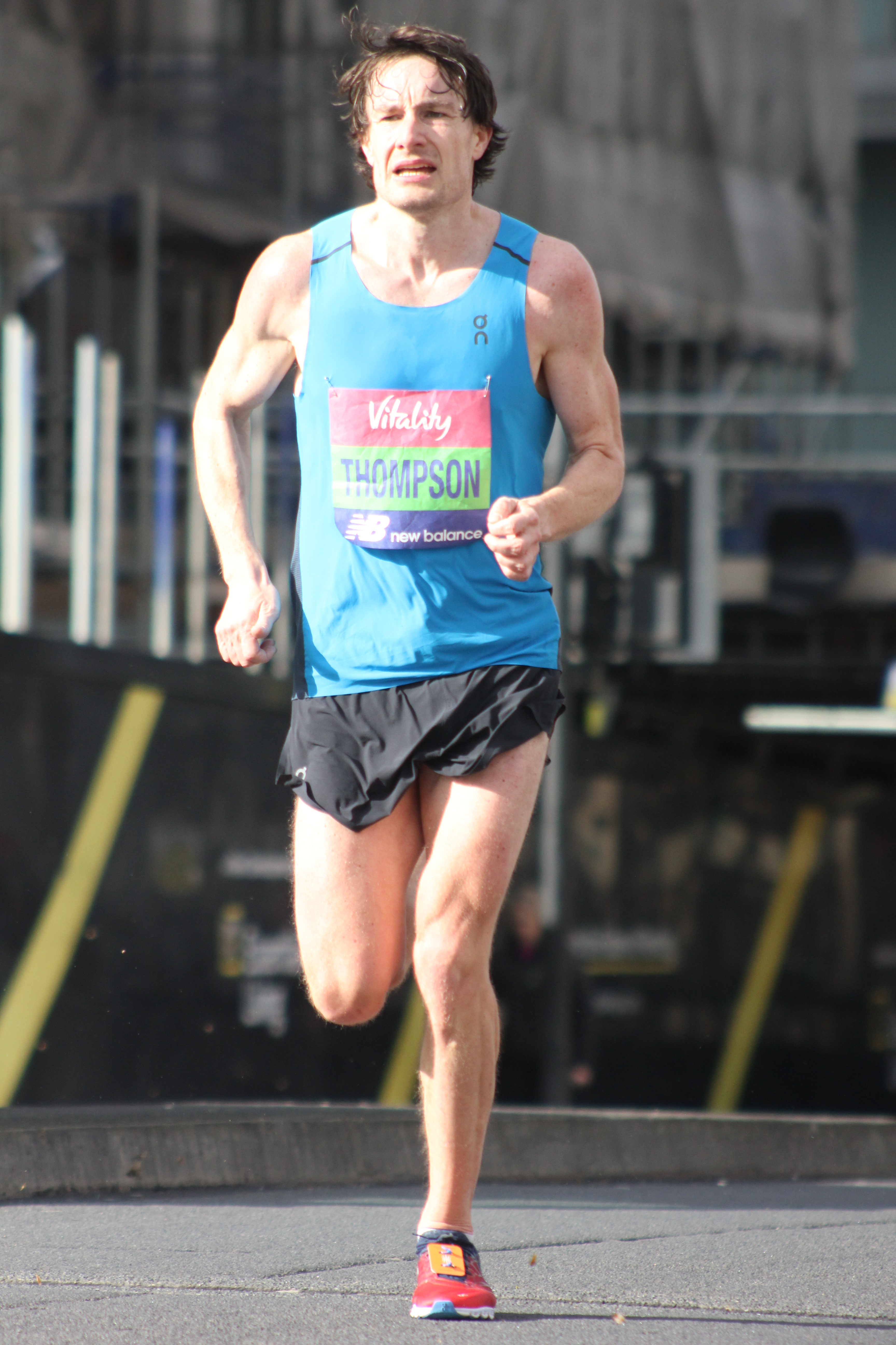 Male athlete competing in London Half Marathon, 10 March 2019